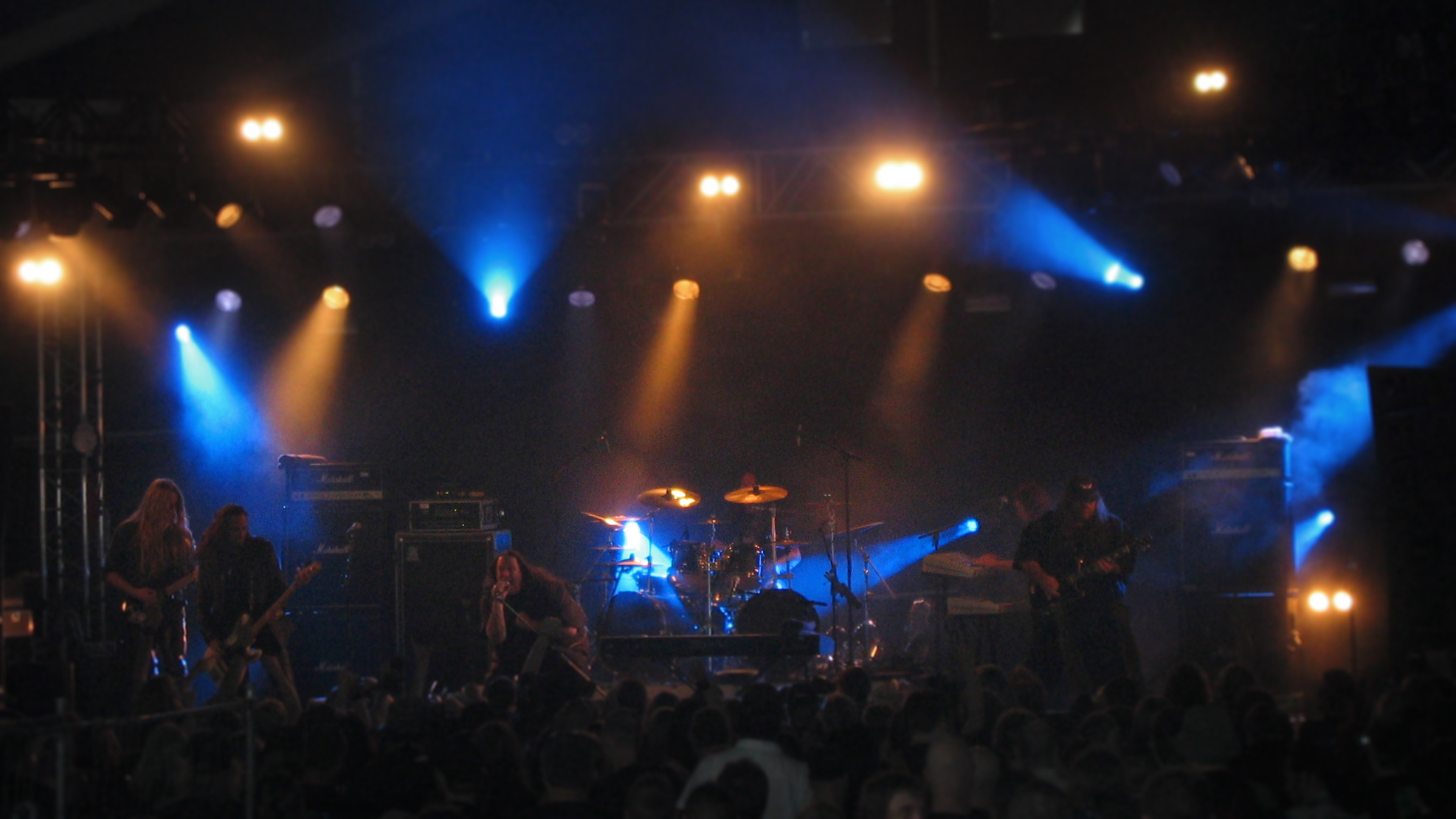 Jon Oliva's Pain playing at Tuska Open Air Metal Festival 2009